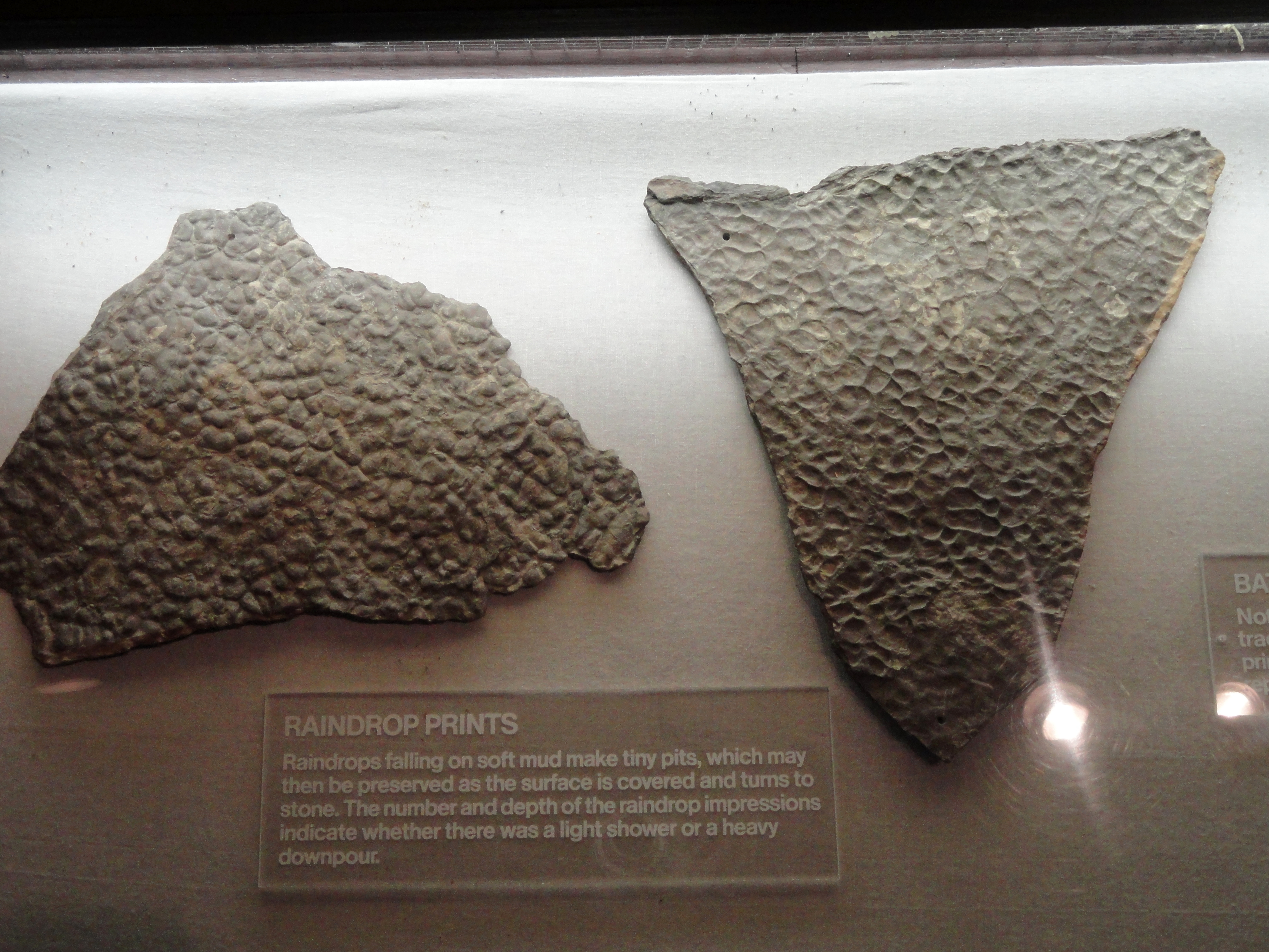 Exhibit in the Springfield Science Museum, 21 Edwards Street, Springfield, Massachusetts, USA. The museum permitted photography without restriction.